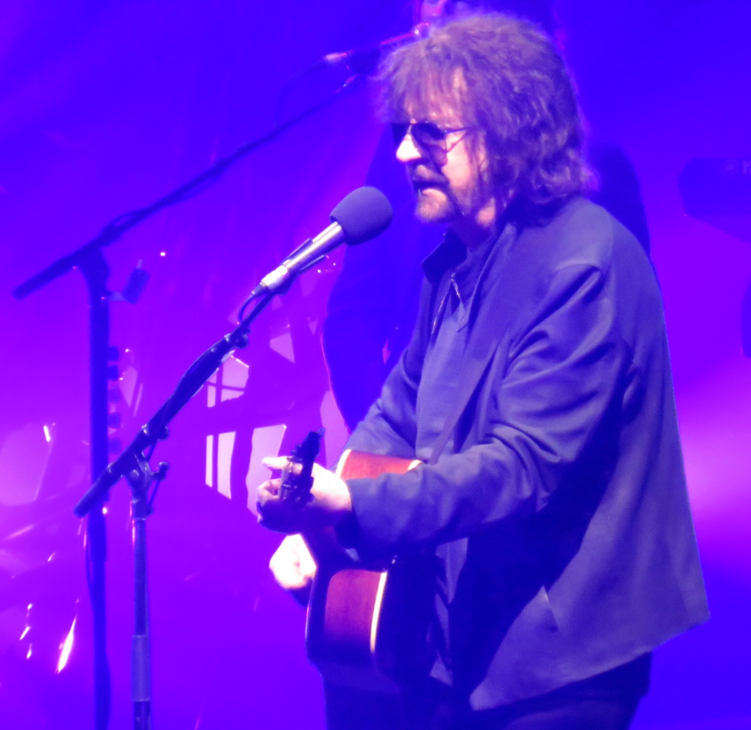 Electric Light Orchestra's Jeff Lynne at the Genting Arena, April 2016